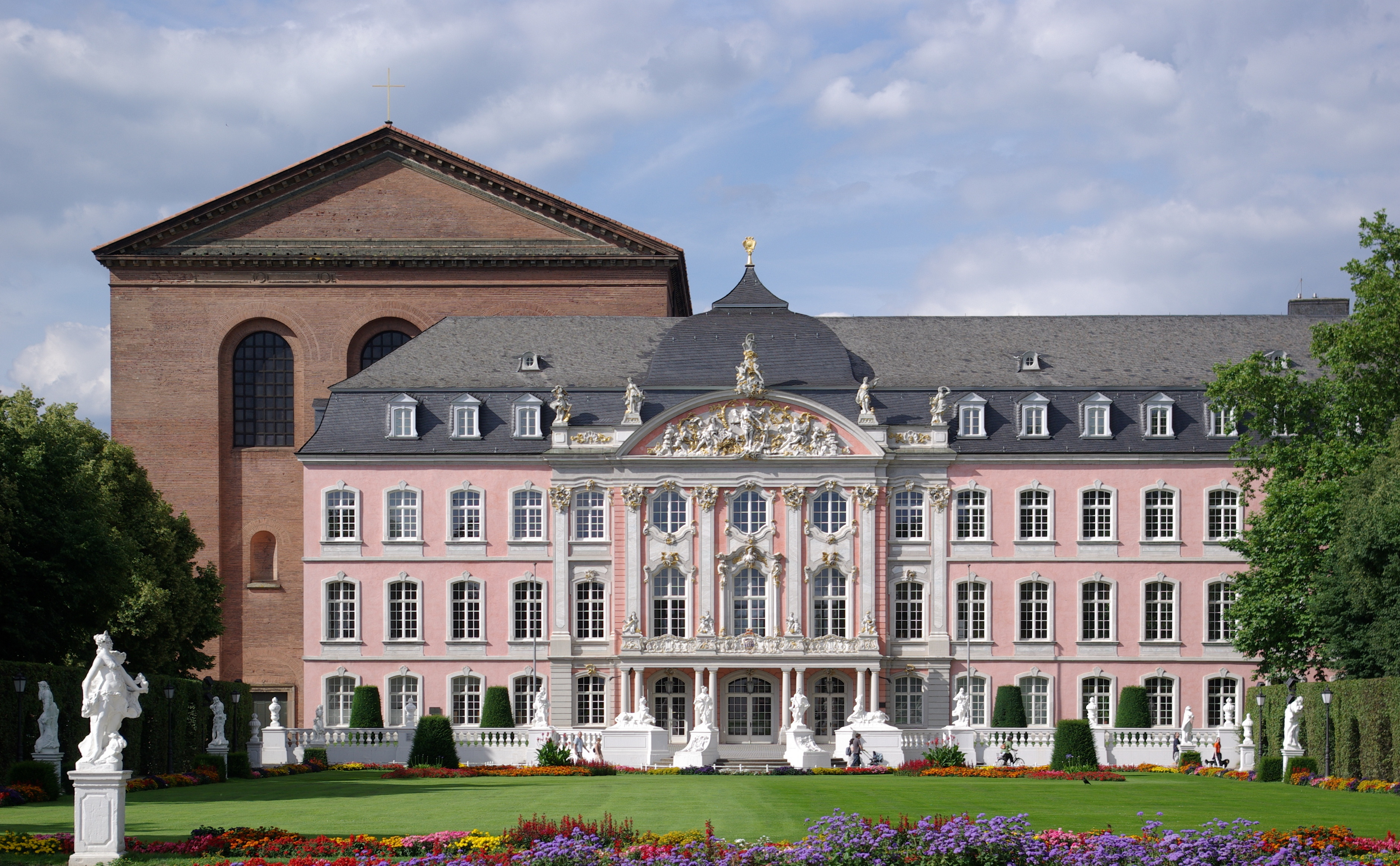 Trier, Prince-electors Palace, South wing, built from 1756 by architect Johannes Seiz with assistance from sculptor Ferdinand Tietz. Assigned by prince-elector Johann Philipp von Walderdorff.